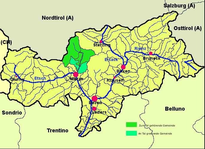 Map of South Tirol with Passeier / Val Passiria and adjacent municipalities marked